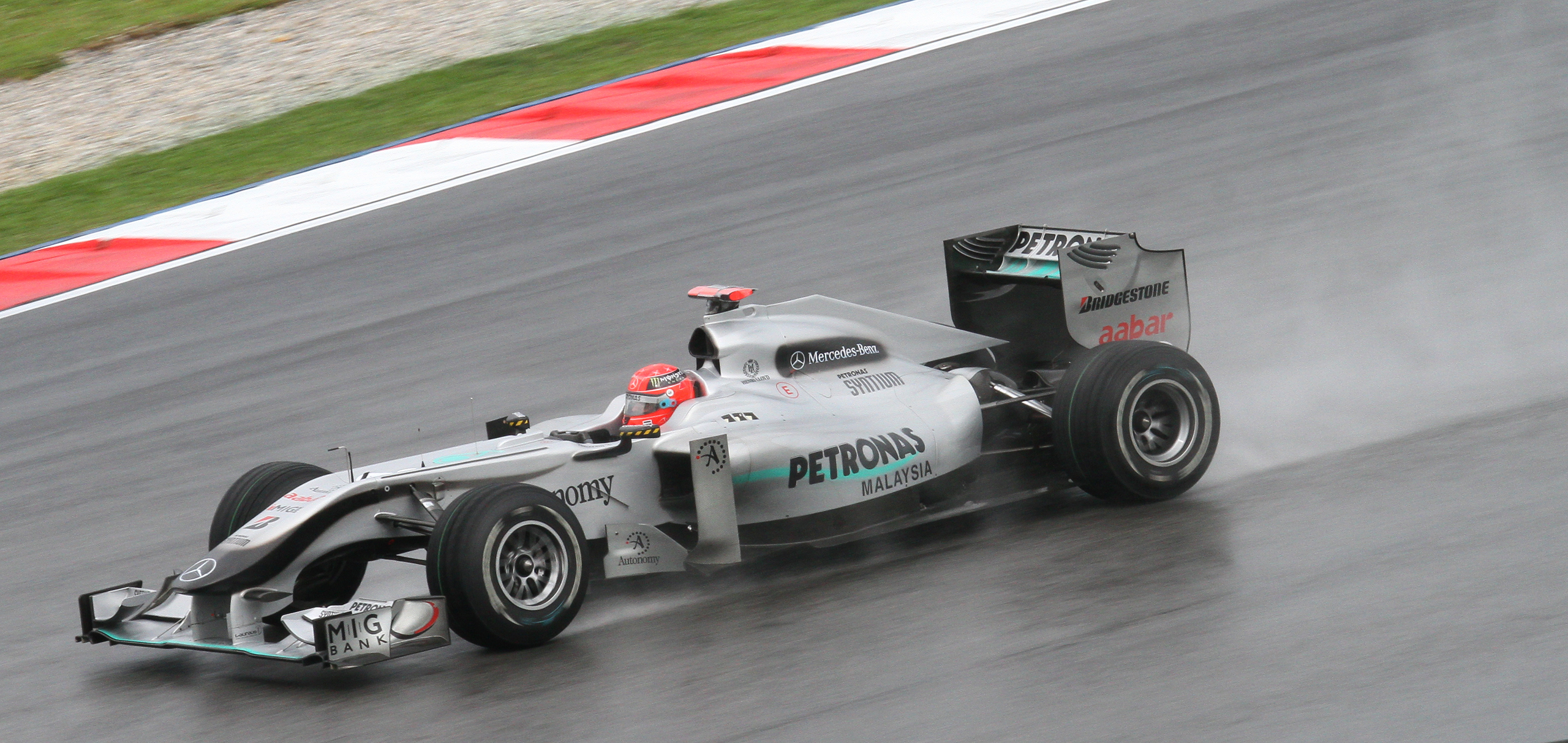 Formula One 2010 Rd.3 Malaysian GP: Michael Schumacher (Mercedes GP) in Saturday 3rd Qualify session.